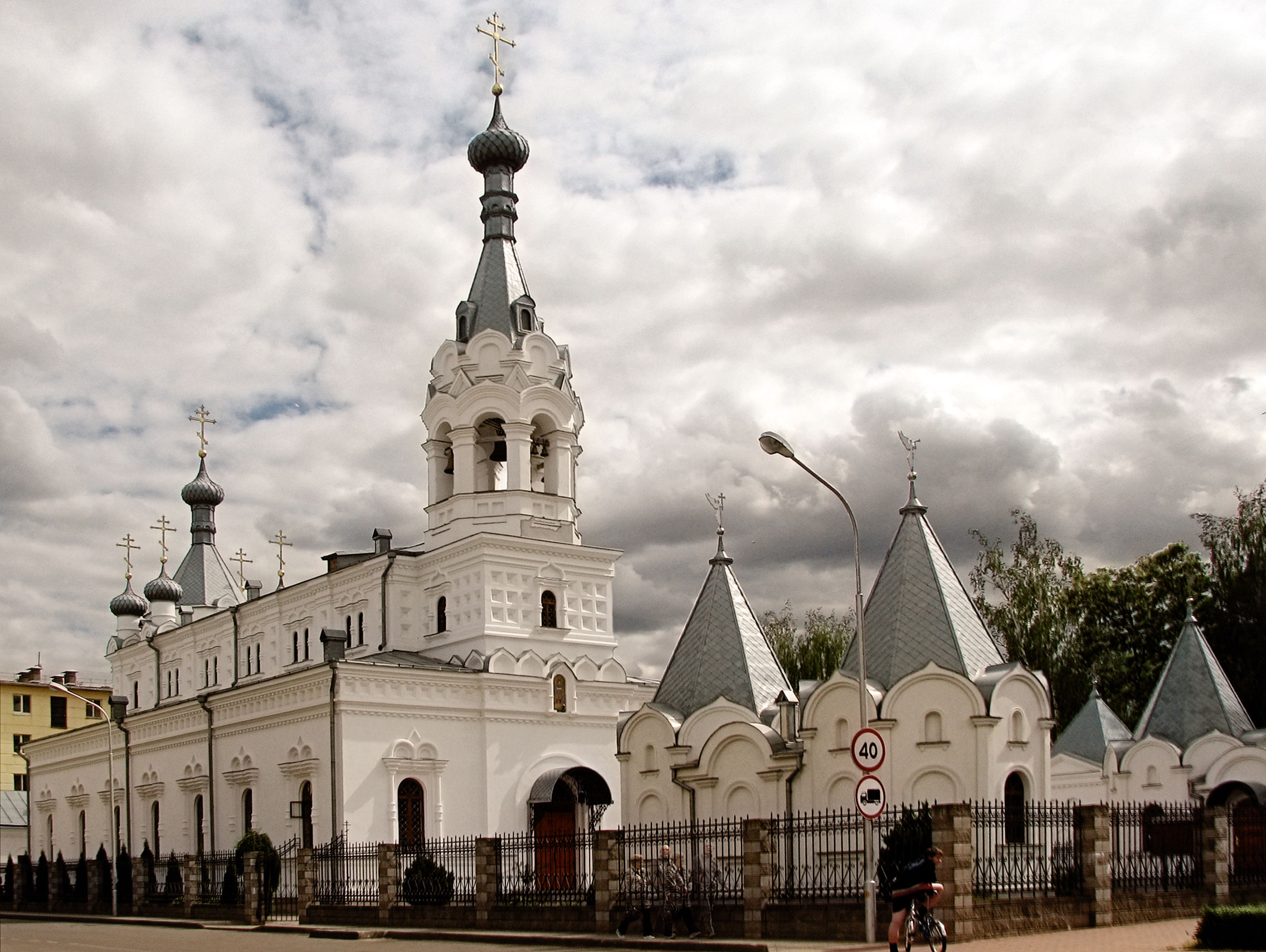 Беларуская (тарашкевіца): Крэпасць. г. Бабруйск This is a photo of Belarusian heritage monument. Reference number: 512Г000059 ( WLM)